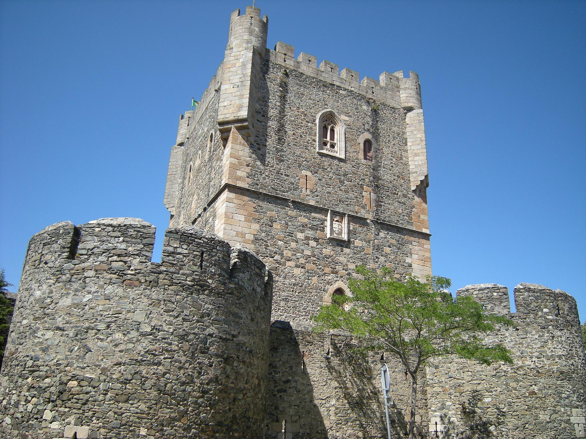 Castle of Bragança, Portugal